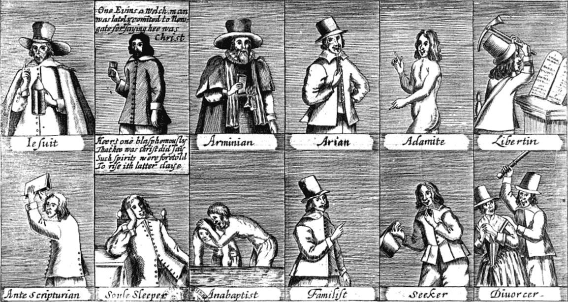 A Catalogue of the Severall Sects and Opinions in England and other Nations: With a briefe Rehearsall of their false and dangerous Tenents. Broadsheet. 1647 Jesuits Welsh blasphemer Arminians Arians Adamites (shown naked) Libertin (i.e. antinomians) (picture of man preparing to take a pick-axe to the Ten Commandments) Antescripturians Soul sleepers Anabaptists Familists Seekers Divorcers (picture of man beating his wife)